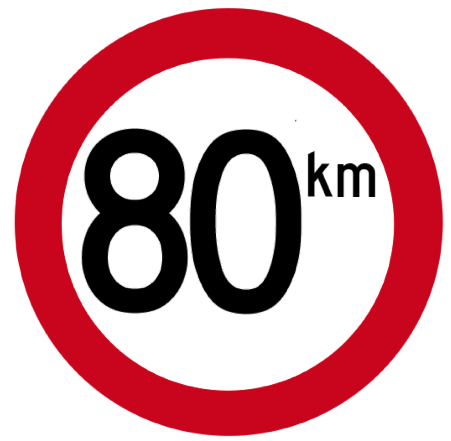 Indonesian speed limit sign in accordance with the Indonesian Transportation ministry regulation No. 61 - 1993